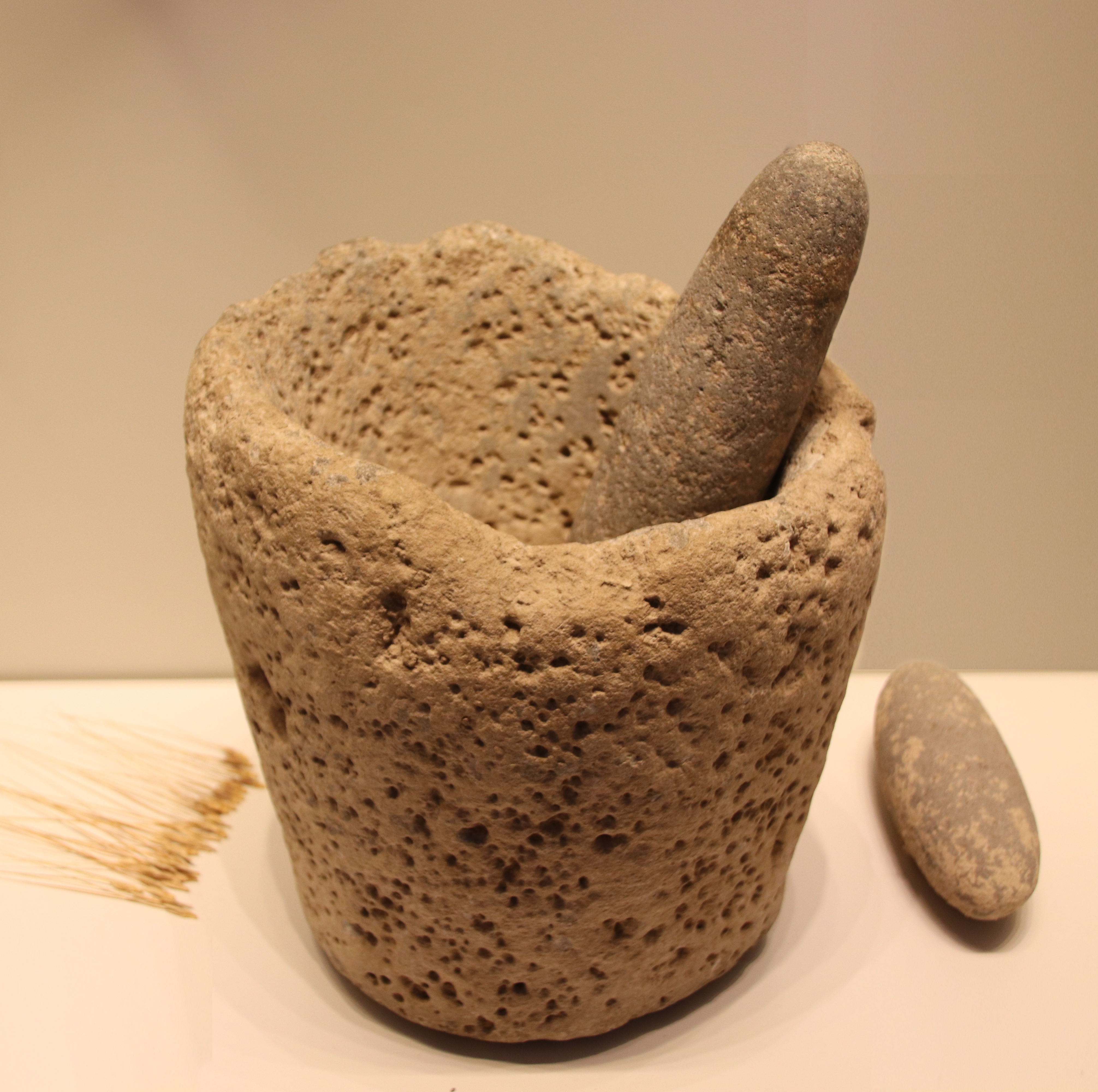 En Gev Epipaleolithic period Basalt Israel Antiquities Authority H: 29 cm; Diam: 25-28 cm; Weight: 11 kg Prehistoric Periods The Israel Museum, Jerusalem Archaeology. Stone Age Stone Mortar & Pestle, Kebaran culture, 22000-18000 BP Israel Museum, Jerusalem, Israel. Complete indexed photo collection at .